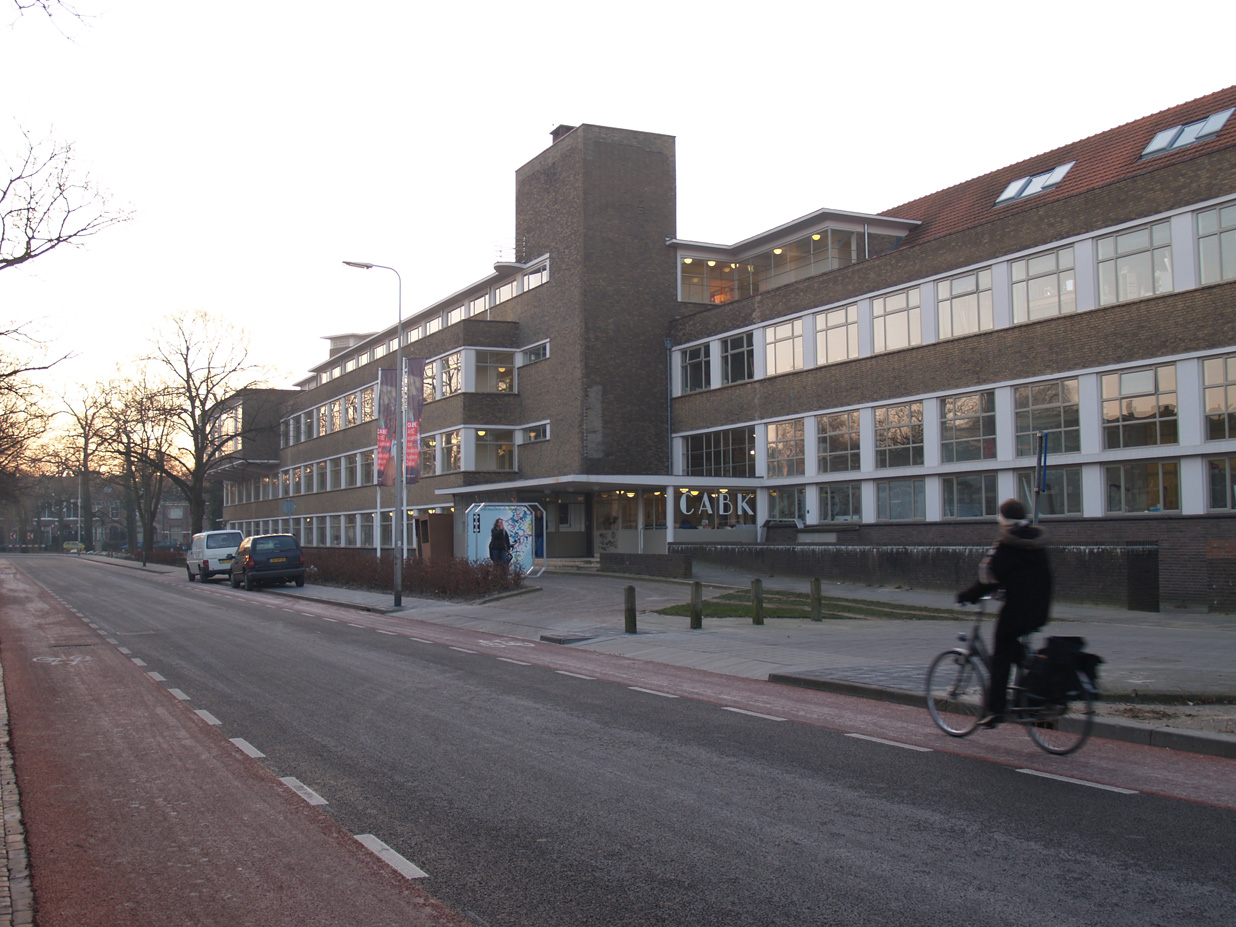 ArtEZ Art & Design Zwolle, Rhijnvis Feithlaan 50, Zwolle, Netherlands